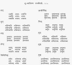 Dhatu